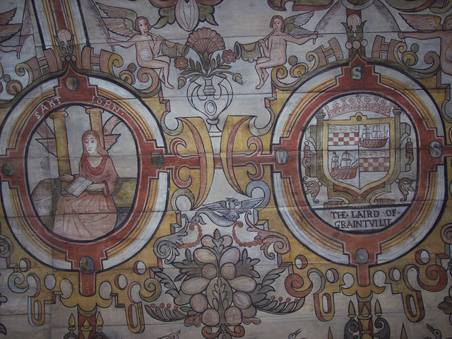 St Mary's Chapel, Grandtully - Painted Ceiling Some parts of the ceiling have deteriorated over the years and have become difficult to interpret. Restoration work in 1944 saved further destruction although this was somewhat intrusive. Current conservations methods are maintaining the paint and decoration without making modern interpretations.